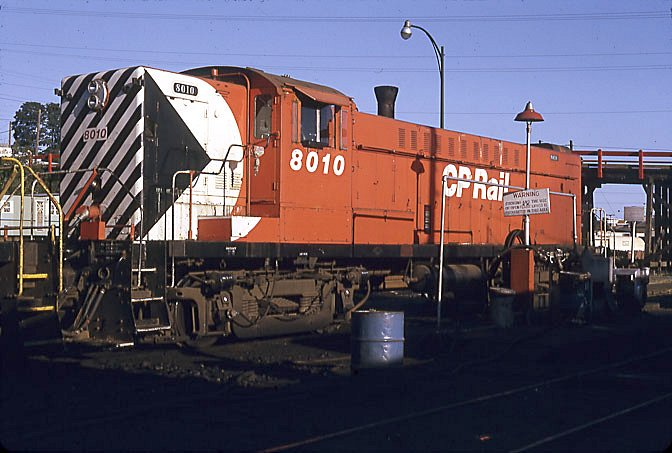 Pacific Railway #8010, a Baldwin DRS-4-4-10. My image.